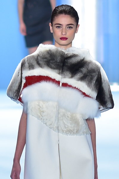 American model Taylor Marie Hill on the show Taylor Hill Carolina Herrera FW15